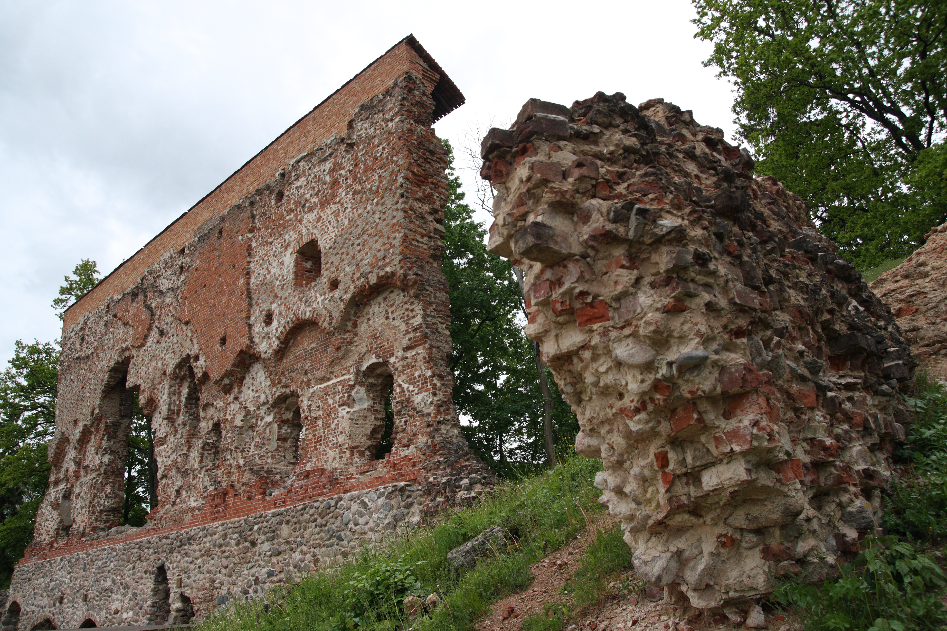 Viljandi, Estonia